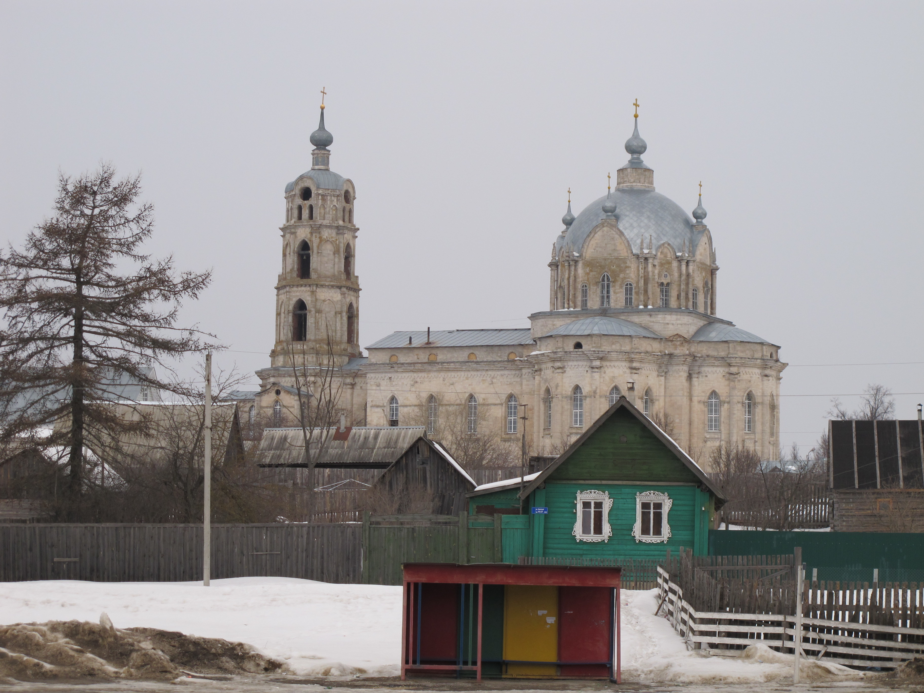 Trinity Church in Gus-Zhelezny